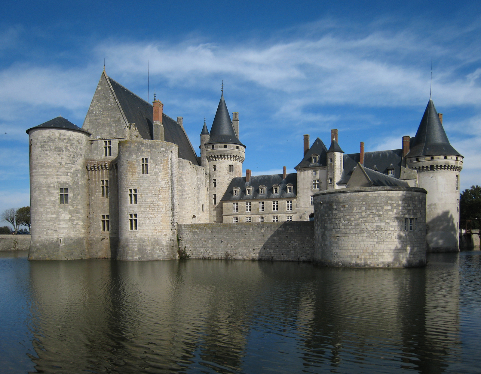 Castle of Sulls-sur-Loire, located in the county of Loiret/France